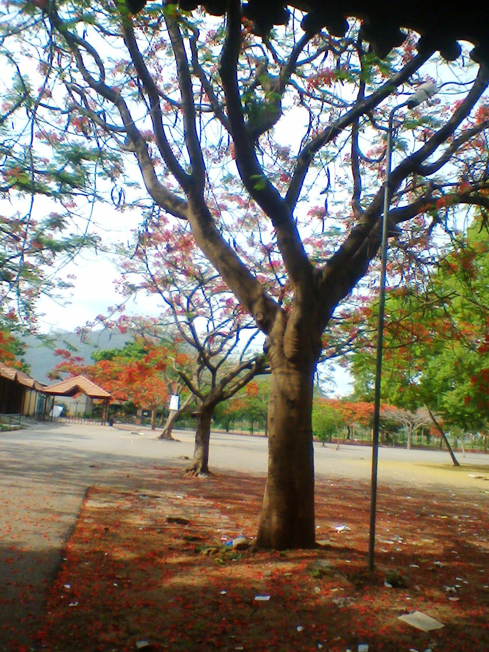 Chamundi area, Mysore, India